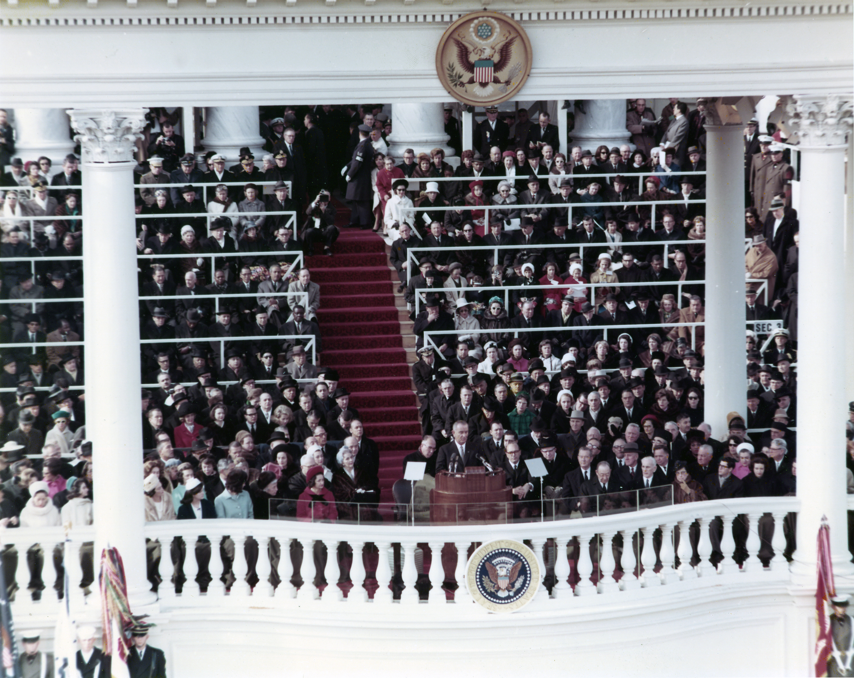 President Johnson delivering his speech at the Inauguration held 20 January 1965.